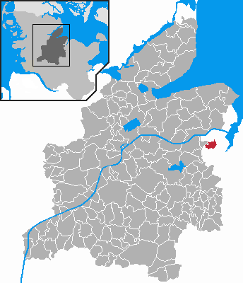 Locator maps of municipalities in Schleswig-Holstein - District Rendsburg-Eckernförde